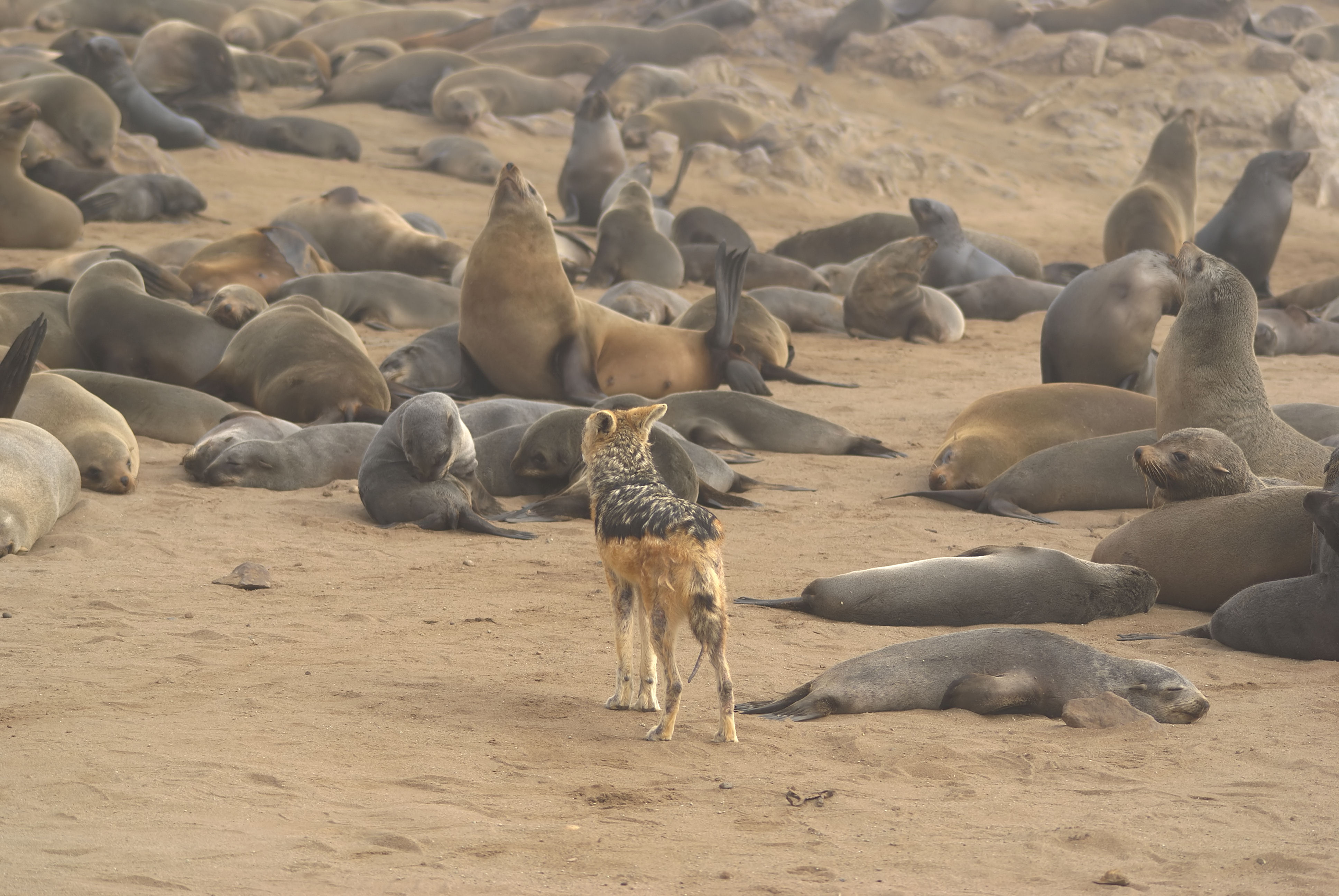 A Black-backed jackal scavenging amongst Cape fur seals at Cape Cross on the Skeleton Coast, Namibia